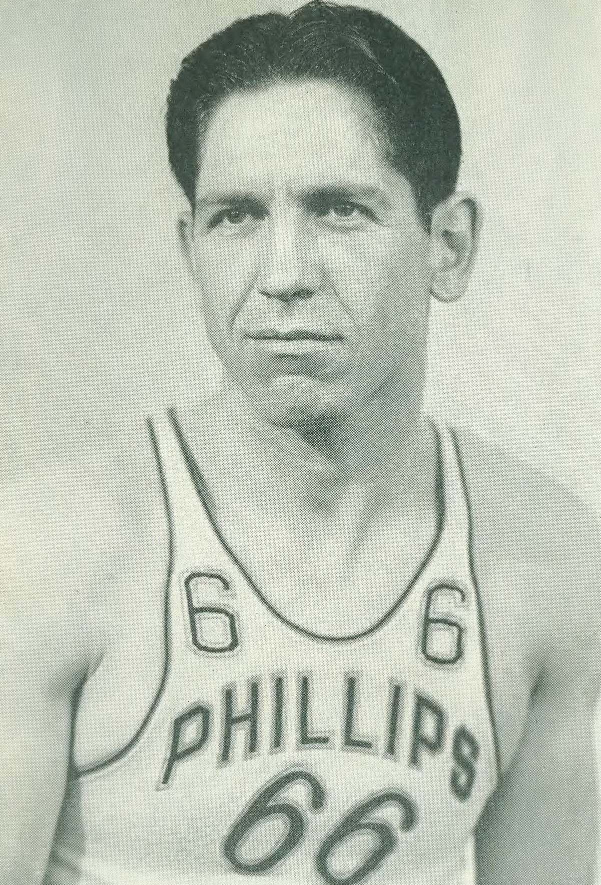 American basketball player Gordon Carpenter with the Phillips 66ers c. 1944